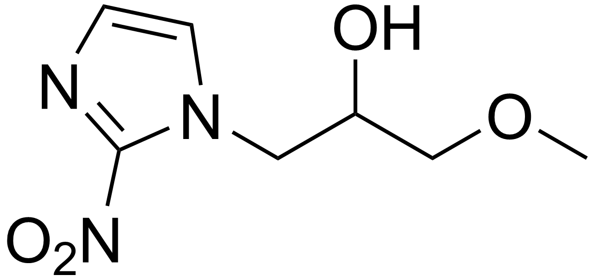 Skeletal formula of misonidazole.